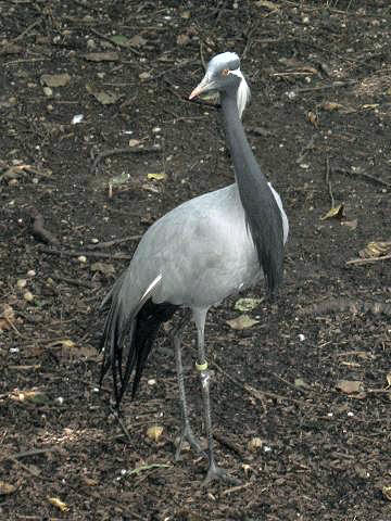 Demoiselle Crane in Prospect Park Zoo.